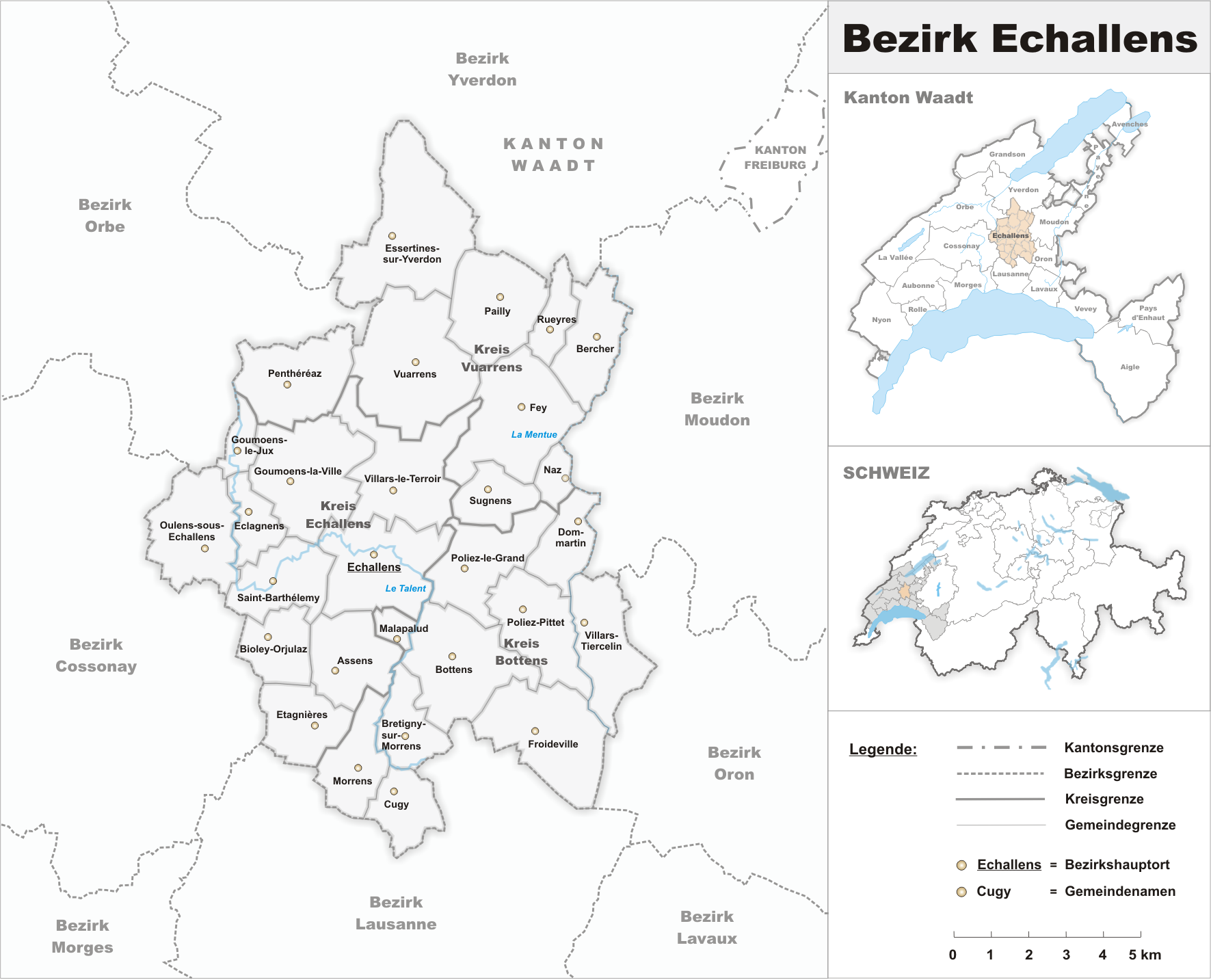 Municipalities in the district of Echallens